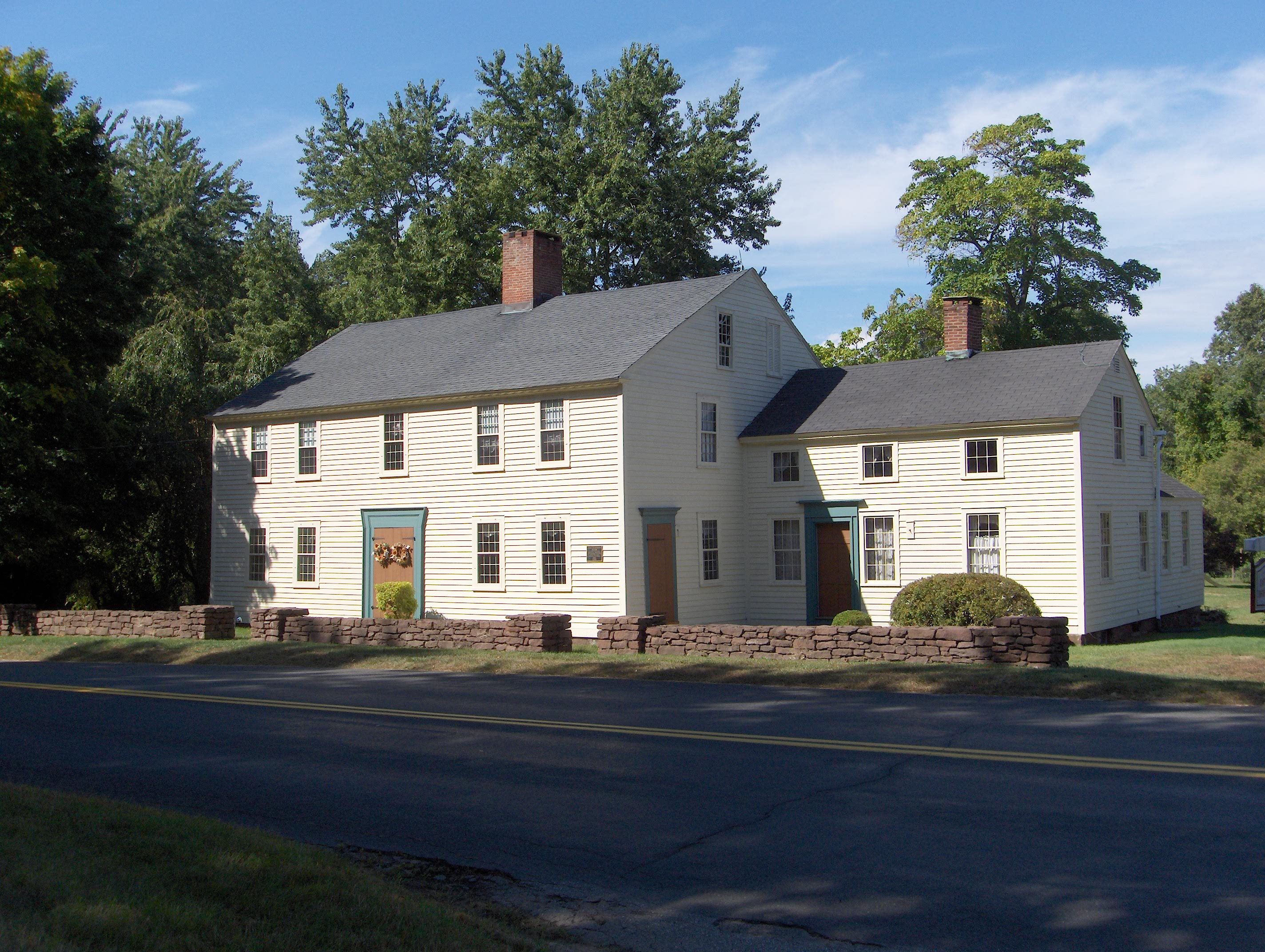 John Humphrey House circa 1760 Simsbury CT USA